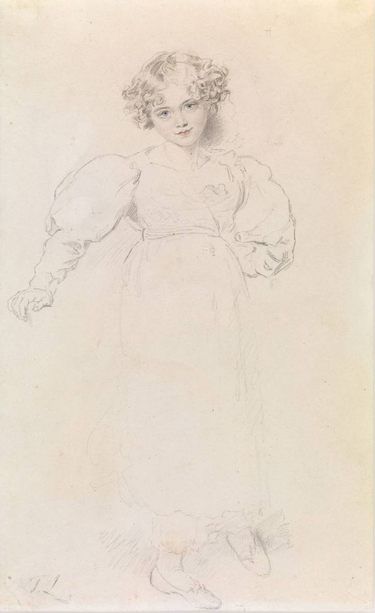 Pencil, red crayon and watercolour 7 ⅜ × 4 ½ inches · 188 × 114 mm Signed with initials, lower left